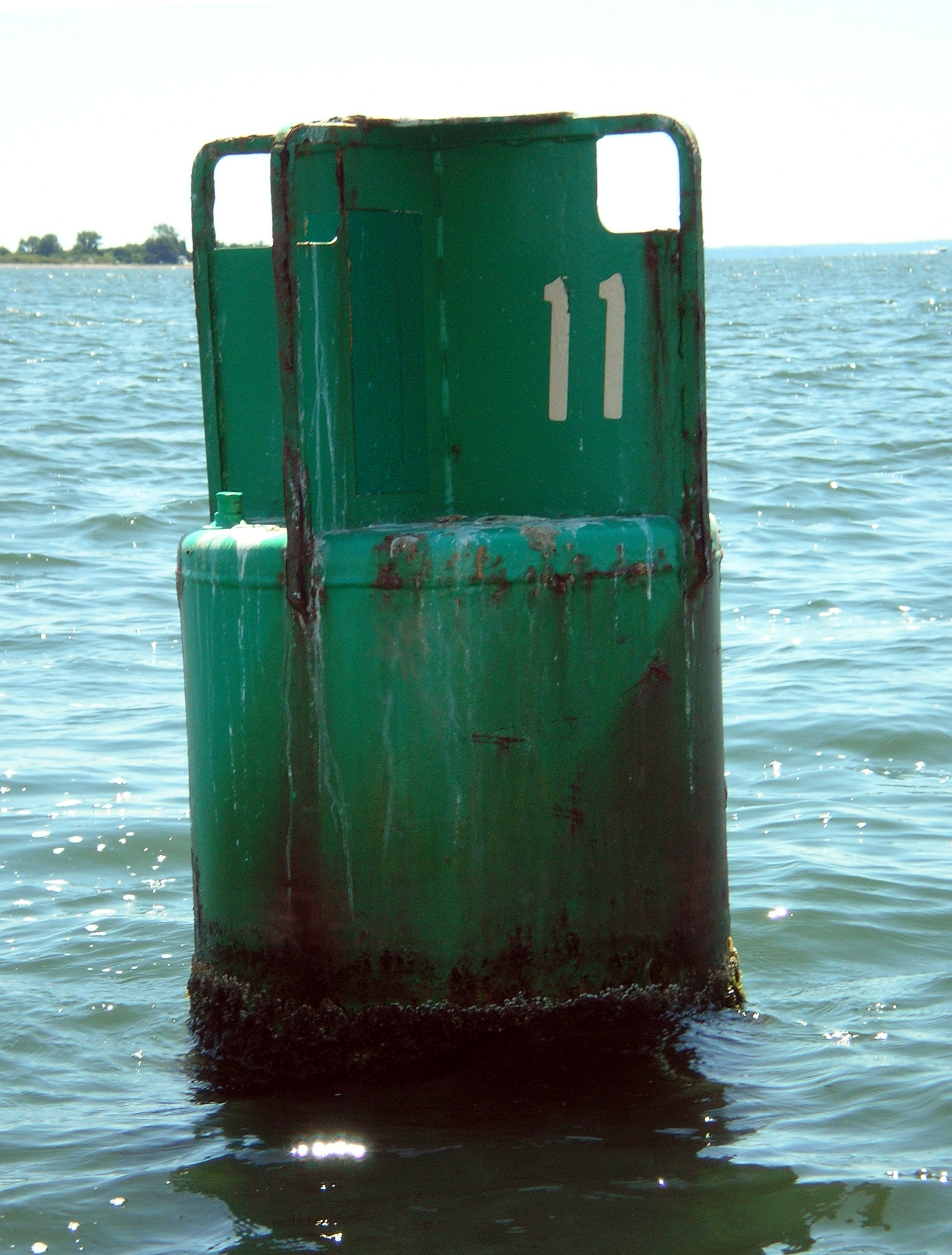 A can in the Long Island Sound.